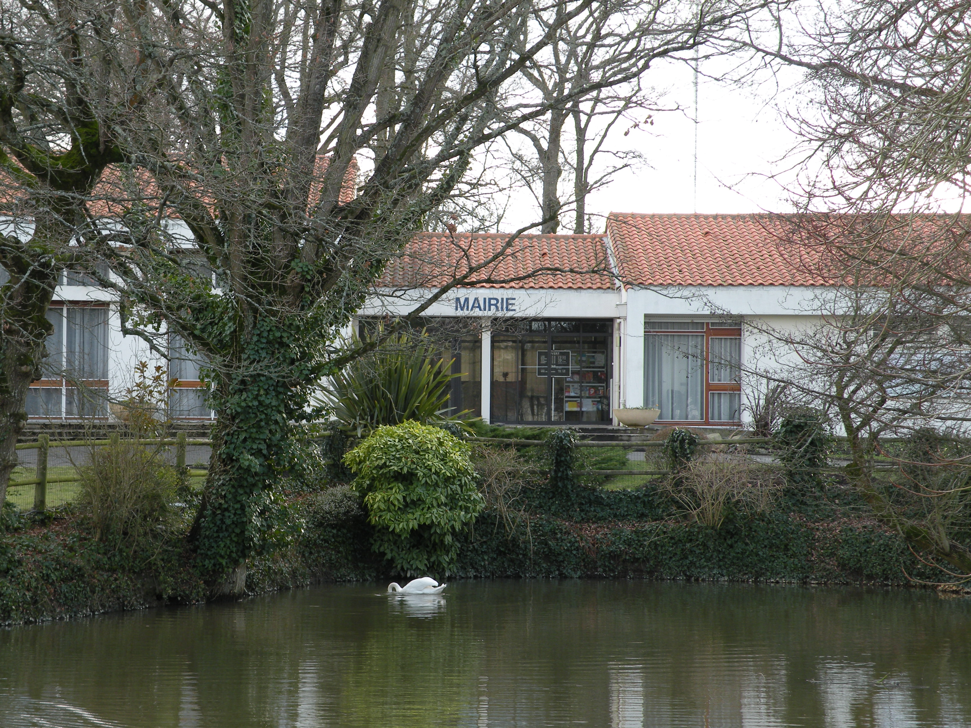 Town hall of Haute-Goulaine